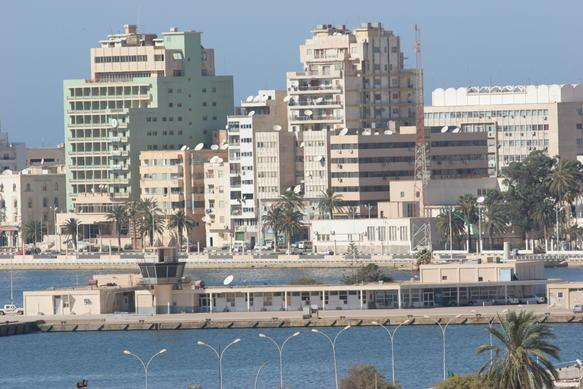 Moderne style buildings built in the 1970s on the waterfront of Benghazi's city centre. In the background from left to right is the Omar Khayam Hotel, al-Kanoon Tower and the Libya Inscurance Company Building. Source